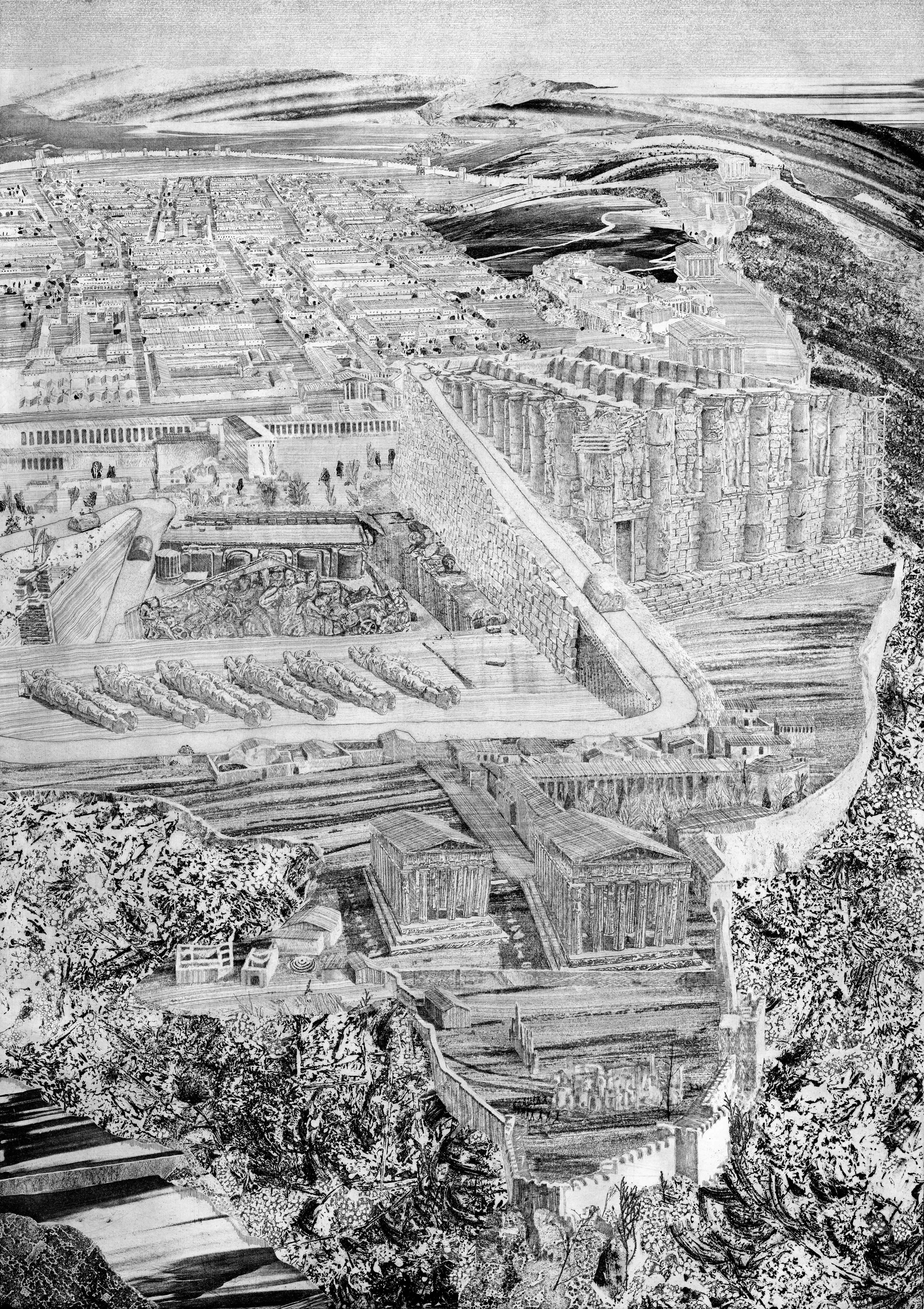 Akragas 406 a.C. etching, aquatint, soft-ground etching, mm. 699x495, Engraved and designed by Toni Pecoraro 2014.